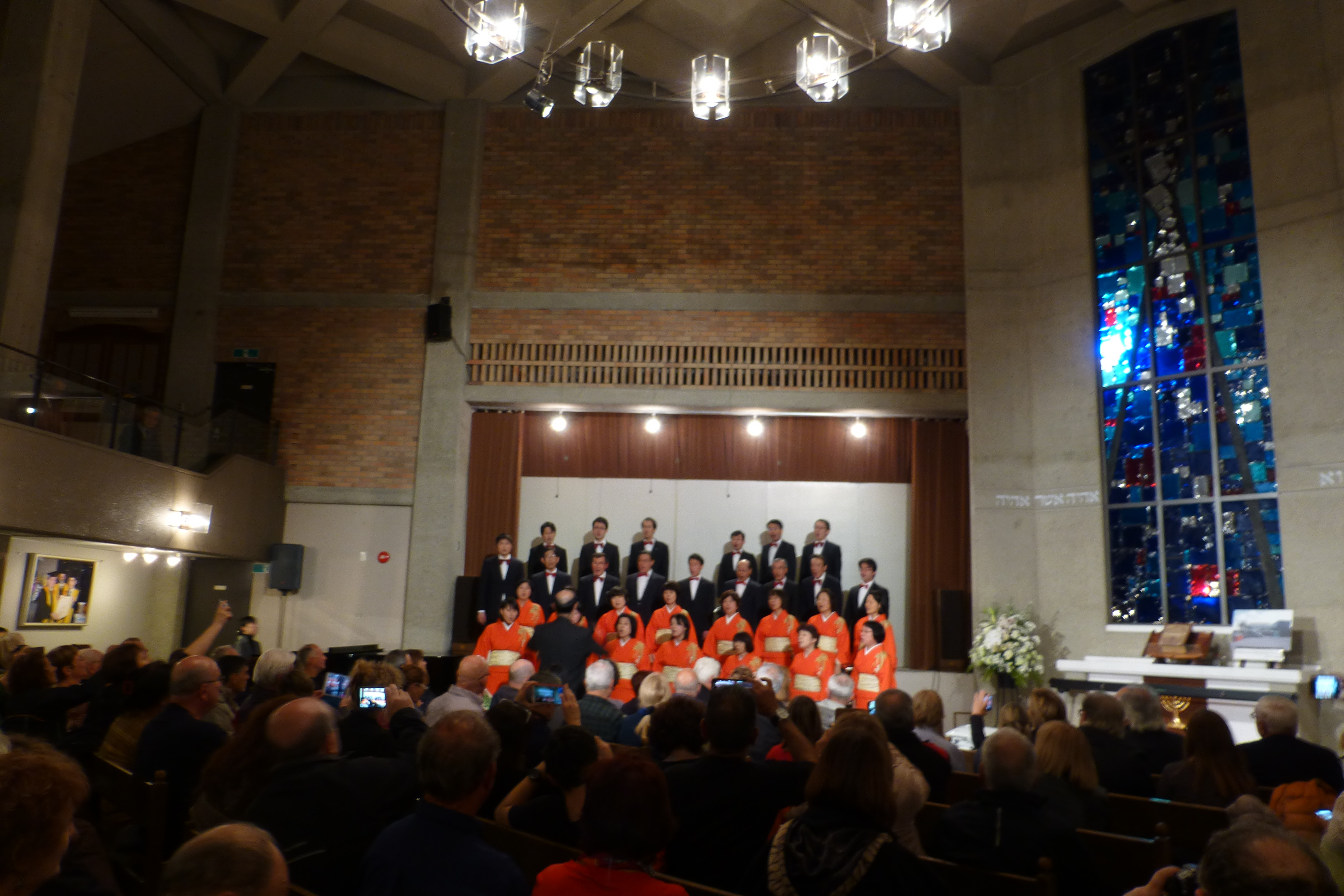 Holy Ecclesia of Jesus is an independent Japanese church founded by Ōtsuki Takeji n 1946, Father Ōtsuki Takeji founded Beit Shalom (also known as Japan Christian Friends of Israel)